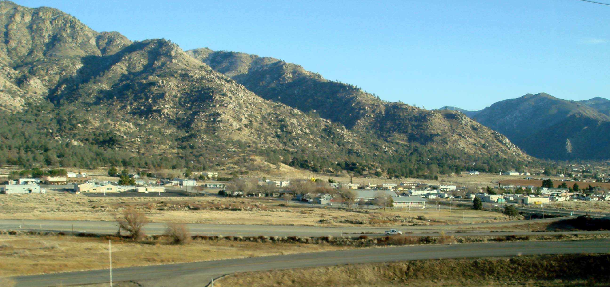 Town of Lake Isabella from afar, in the Southern Sierra Nevada.